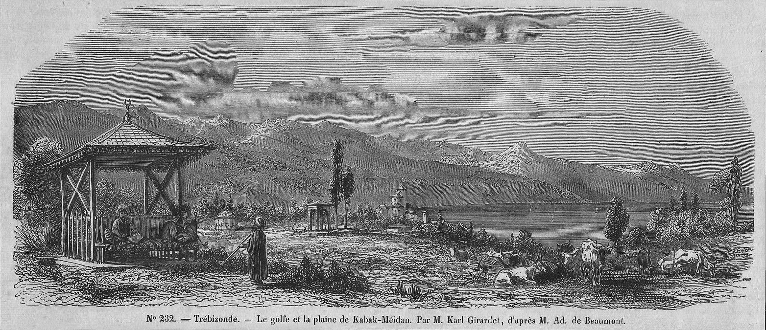 Engraving of Trebizond (Trabzon) by Karl Girardet after M. Ad. de Beaumont.